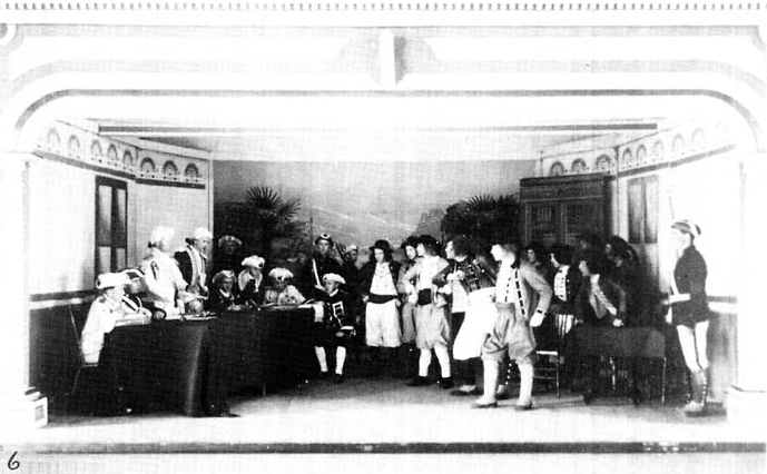 A scene from Le Drame du peuple acadien, a play by Jean-Baptiste Jégo presented in 1930 at the Sainte-Anne College.